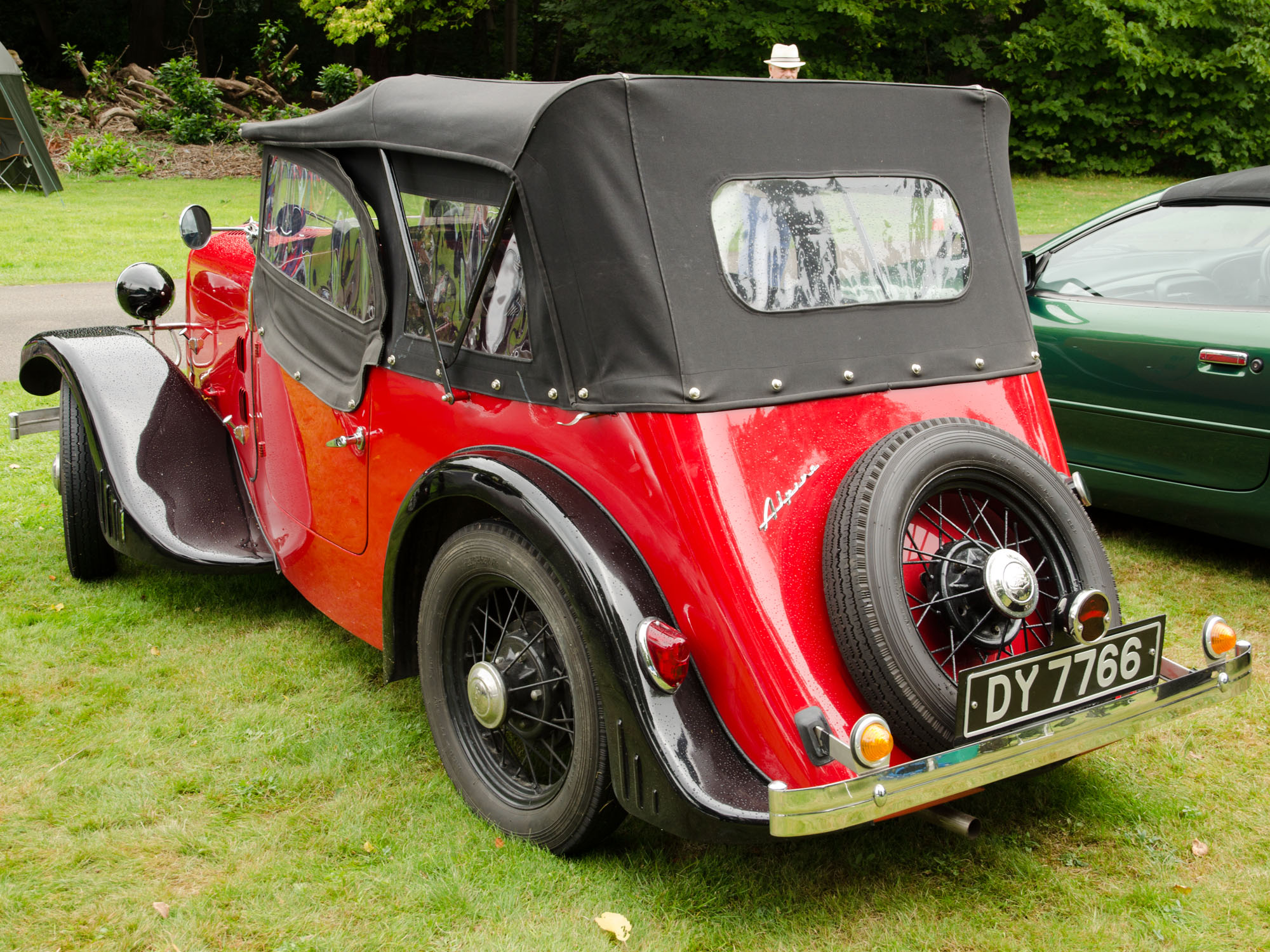 1933 Ford Model Y Alpine Tourer Lytham Hall Classic Car Show 03/08/2014